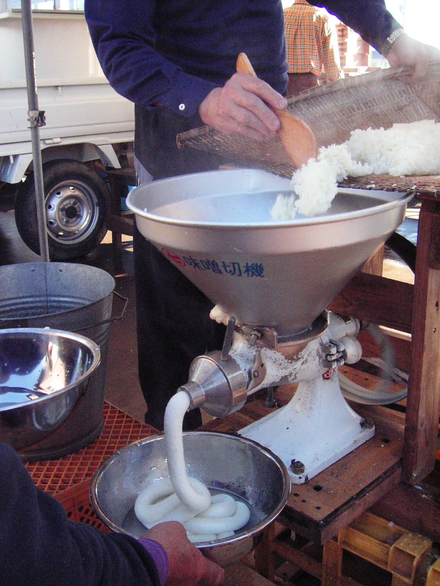 Mochi Machine Electronic machine used to produce Japanese mochi, in action.